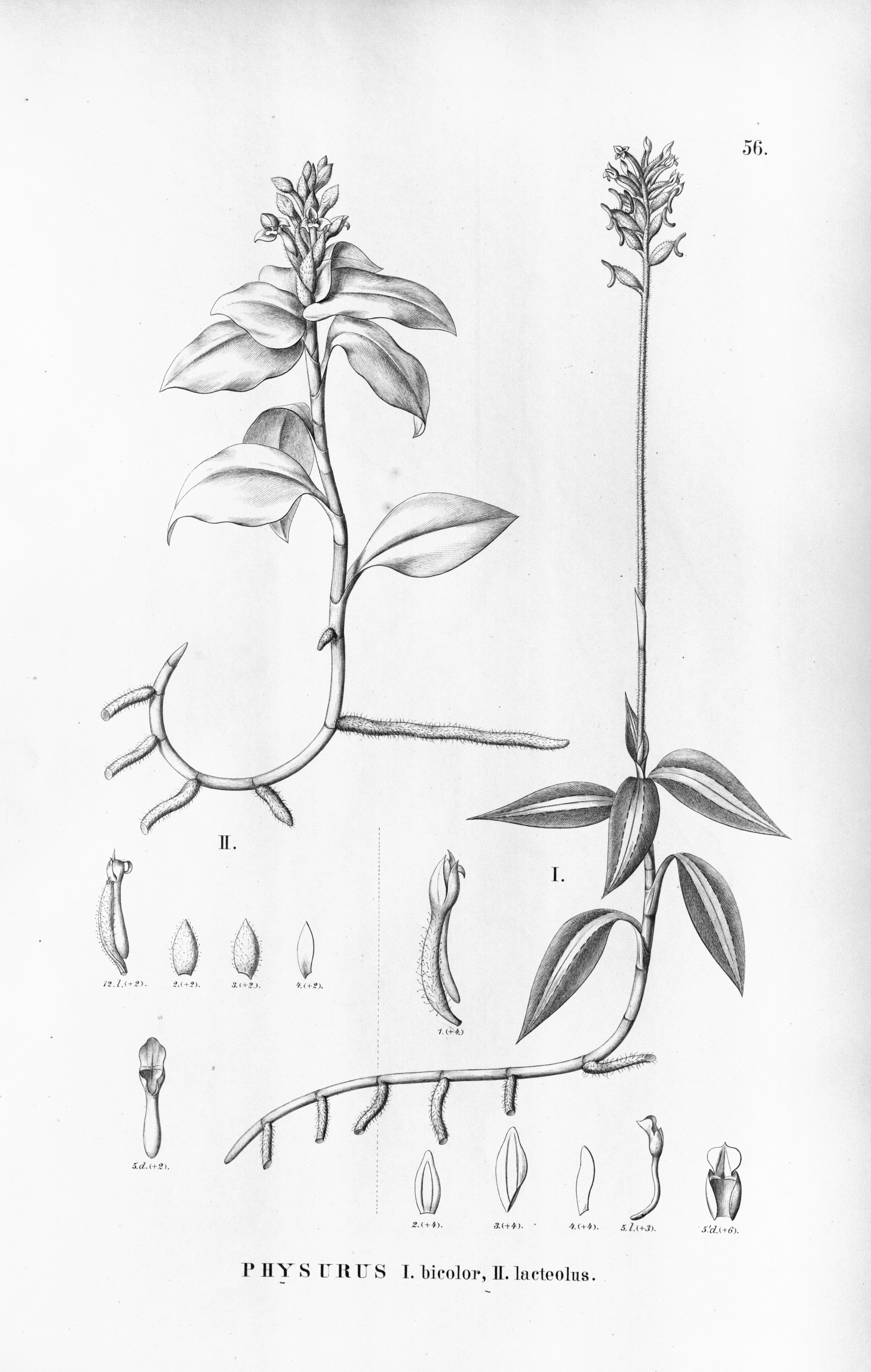 Illustration of : I. Aspidogyne decora (as syn. Physurus bicolor) II. Aspidogyne hylibates (as syn. Physurus lacteolus)